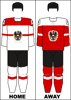 The home and away jerseys of the Austrian national ice hockey team used at the 2014 Winter Olympics, with the Austrian Coat of Arms on the front.